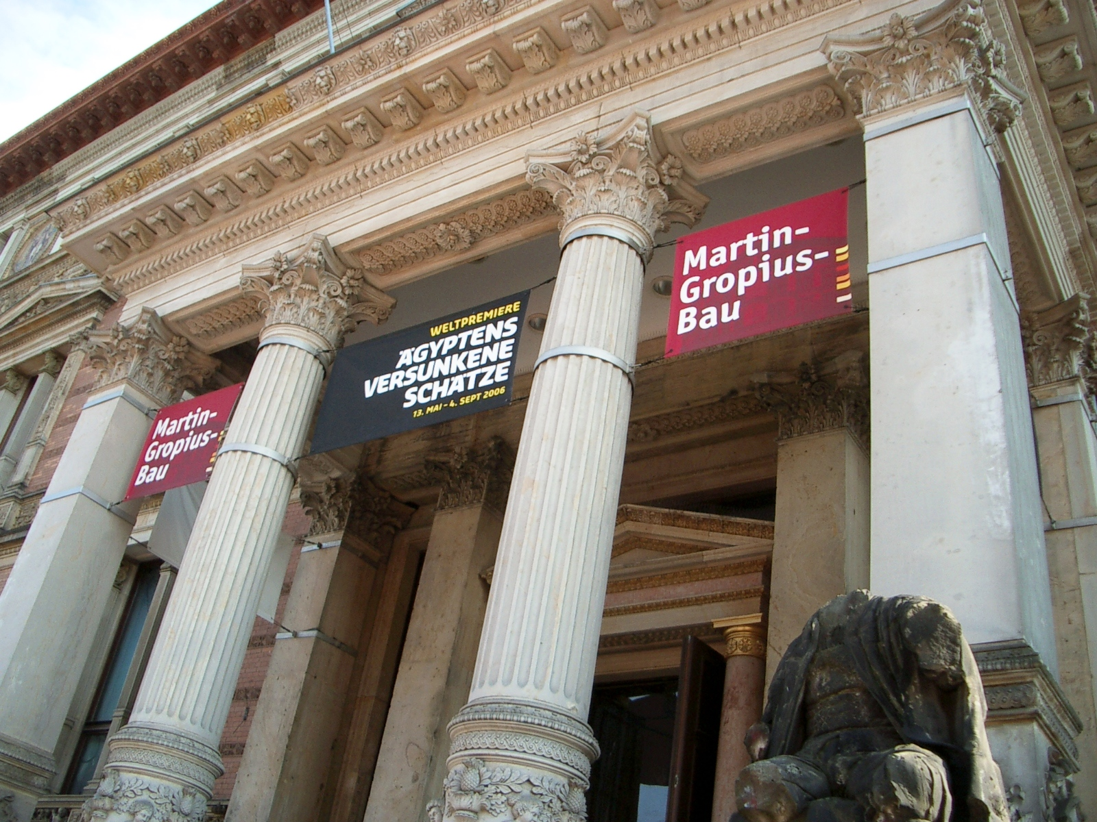 Martin-Gropius-Bau: Northern entrance with soot-blackened and war-damaged statue of Hans Holbein the Younger by Louis Sußmann-Hellborn.